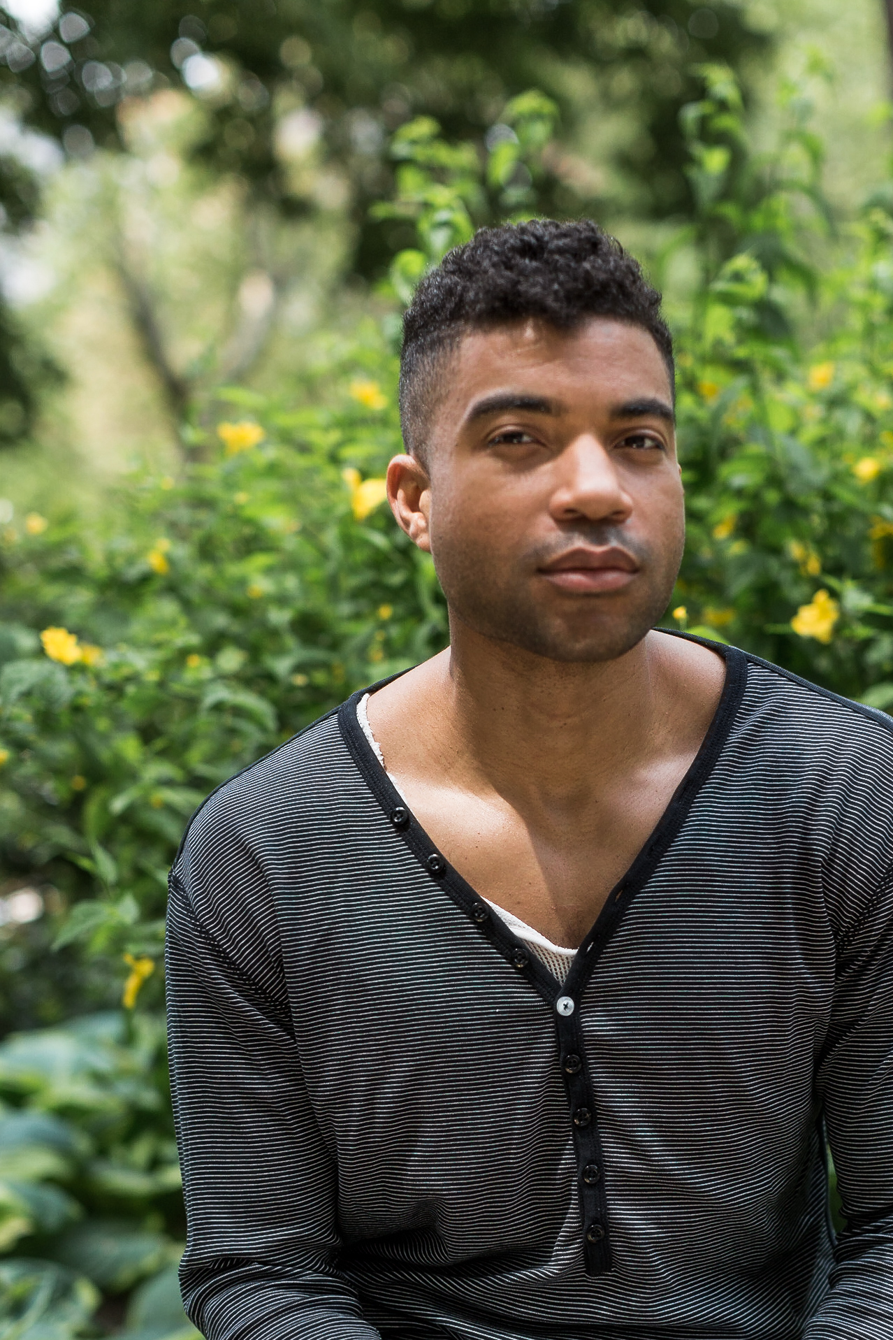 Portrait of artist Wardell Milan by Tiffany Smith